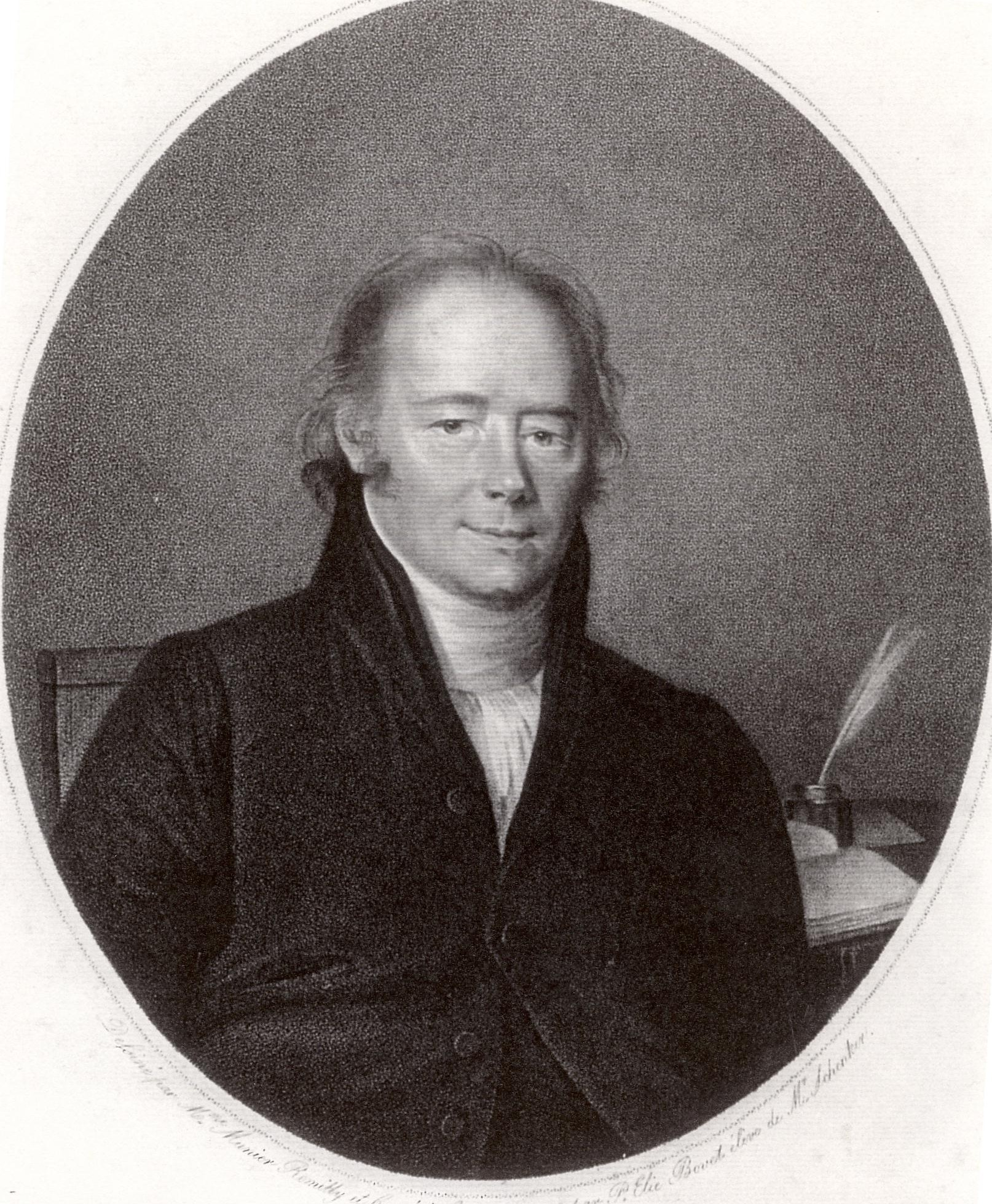 William Allen FRS, FLS (August 29, en:1770 – September 30, en:1843) was an English Quaker born in Spitalfields, England. He was a scientist and philanthropist who opposed slavery and engaged in schemes of social and penal improvement in early nineteenth century England. Image taken from